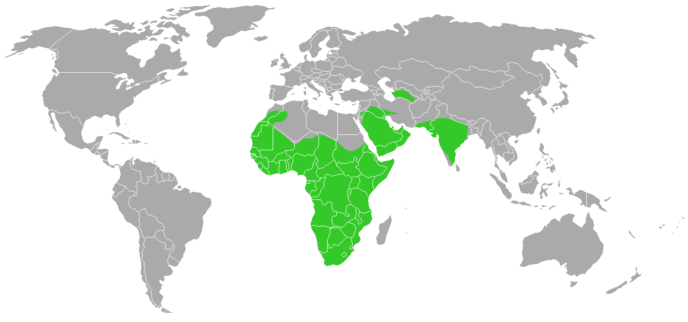 Normalized from File:Mellivora capensis distribution.svg.